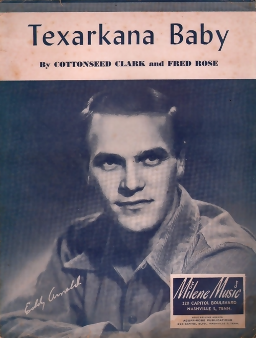 The front cover of the "Texarkana Baby" folio from 1948, showing singer Eddy Arnold, who popularized the tune. Cottonseed Clark and Fred Rose are shown as the song's composers.